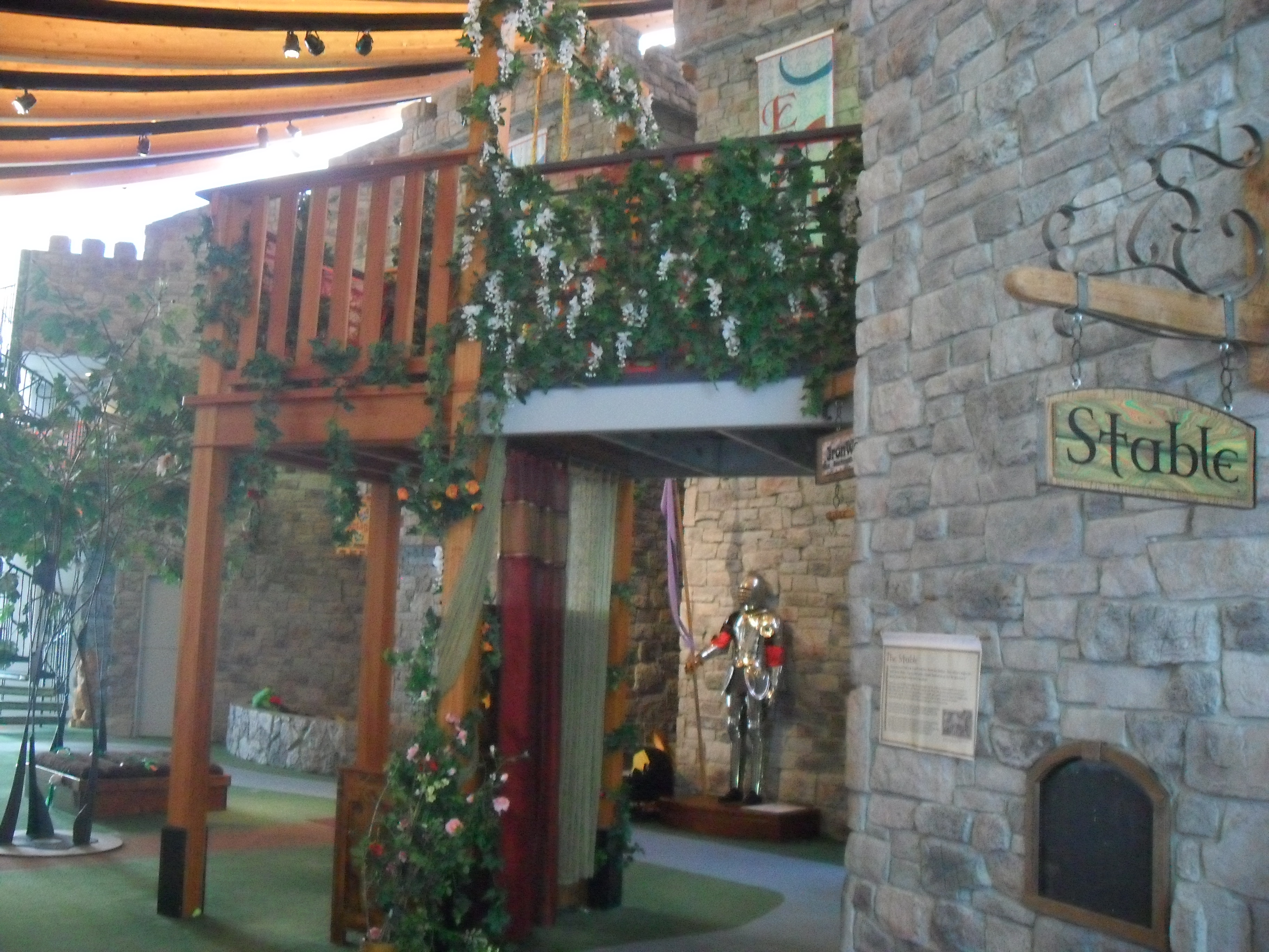 This is a view of part of the 3-story castle at Exploration Place.